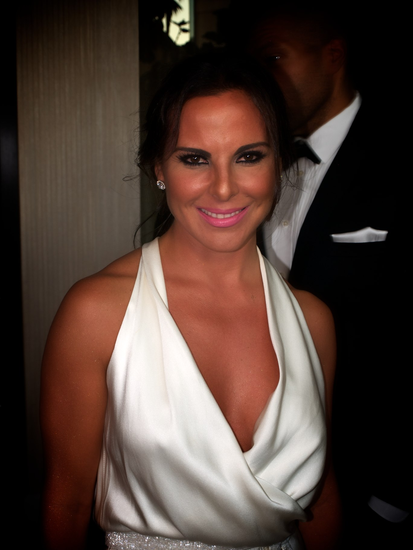 Kate del Castillo at the 2012 Imagen Foundation Awards